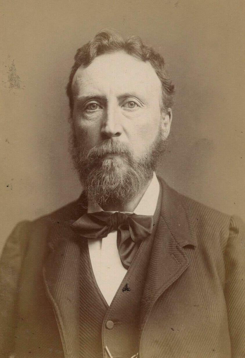 Albert Bruce-Joy by Done & Ball. albumen cabinet cad